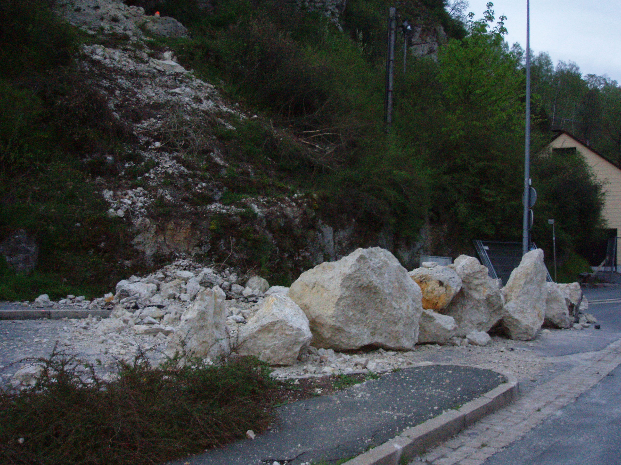 Pottenstein